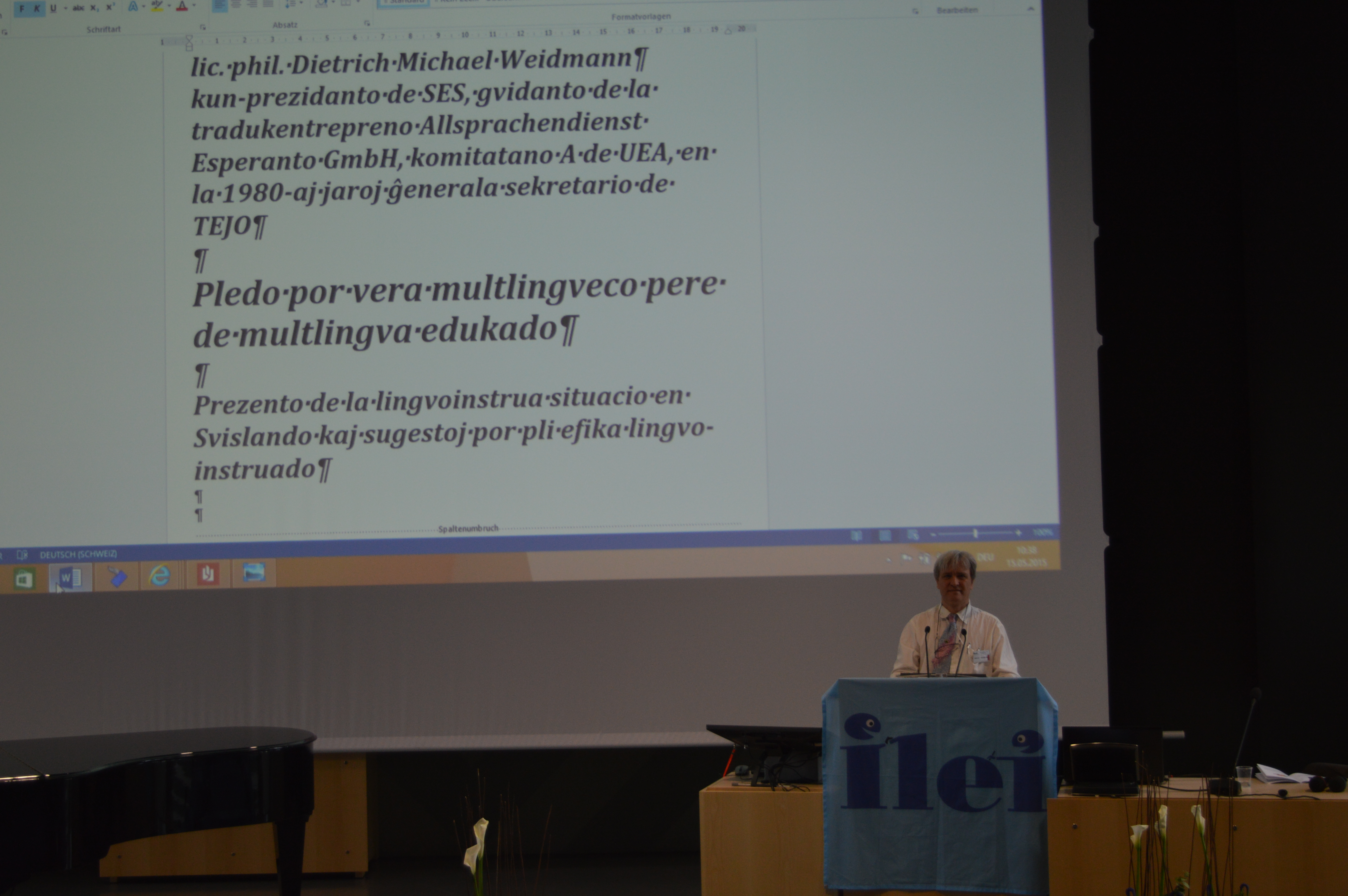 Dietrich Michael Weidmann speaks during the third international conference on Esperanto teachting, canton of Neuchatel, SwitzerlandEsperanto: Dietrich Michael Weidmann dum la tria konferenco pri Esperanto-instruado, Neŭŝatelo, Svislando